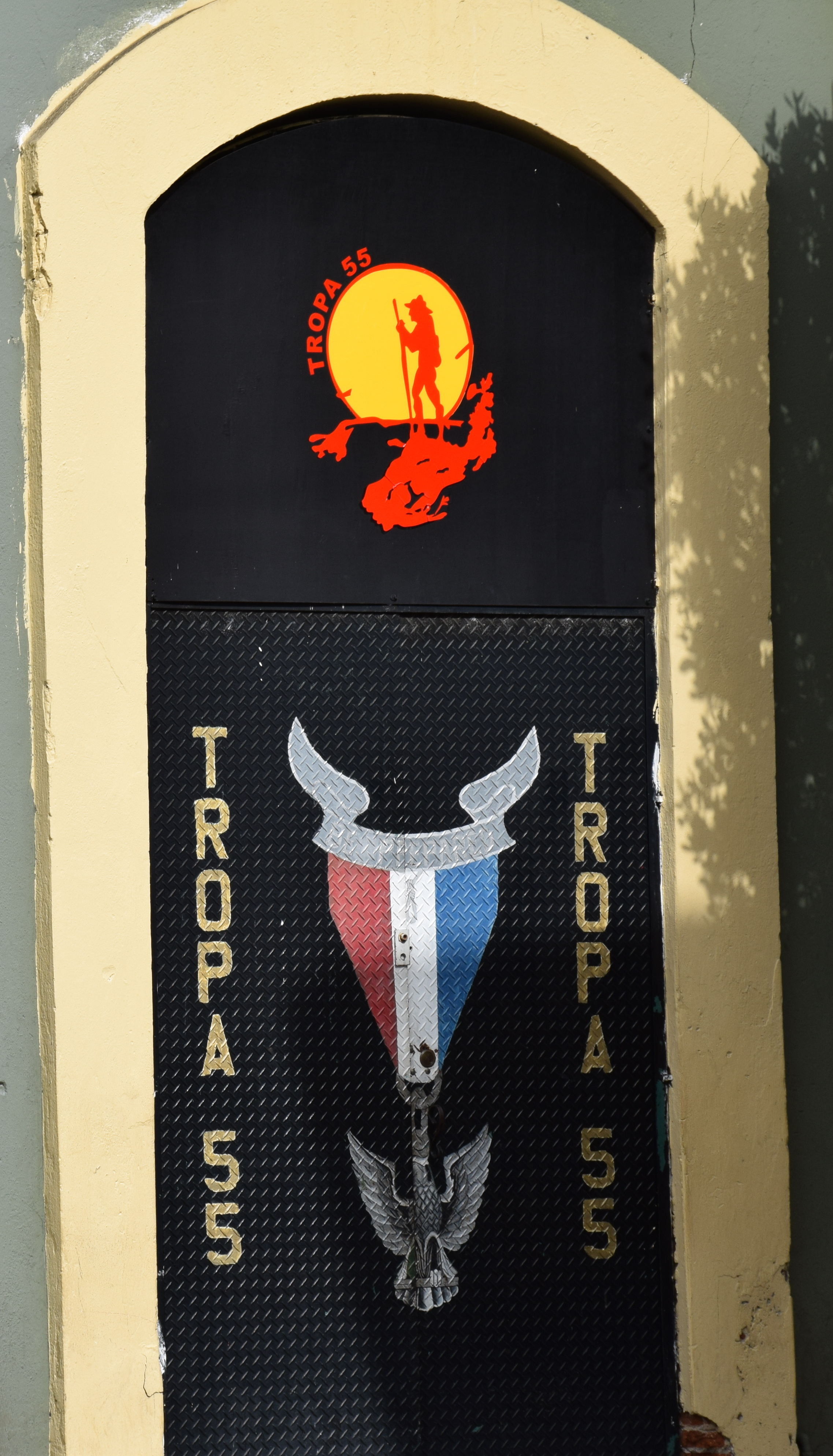 Puerto Rican Boy Scouts, Mayagüez, Puerto Rico